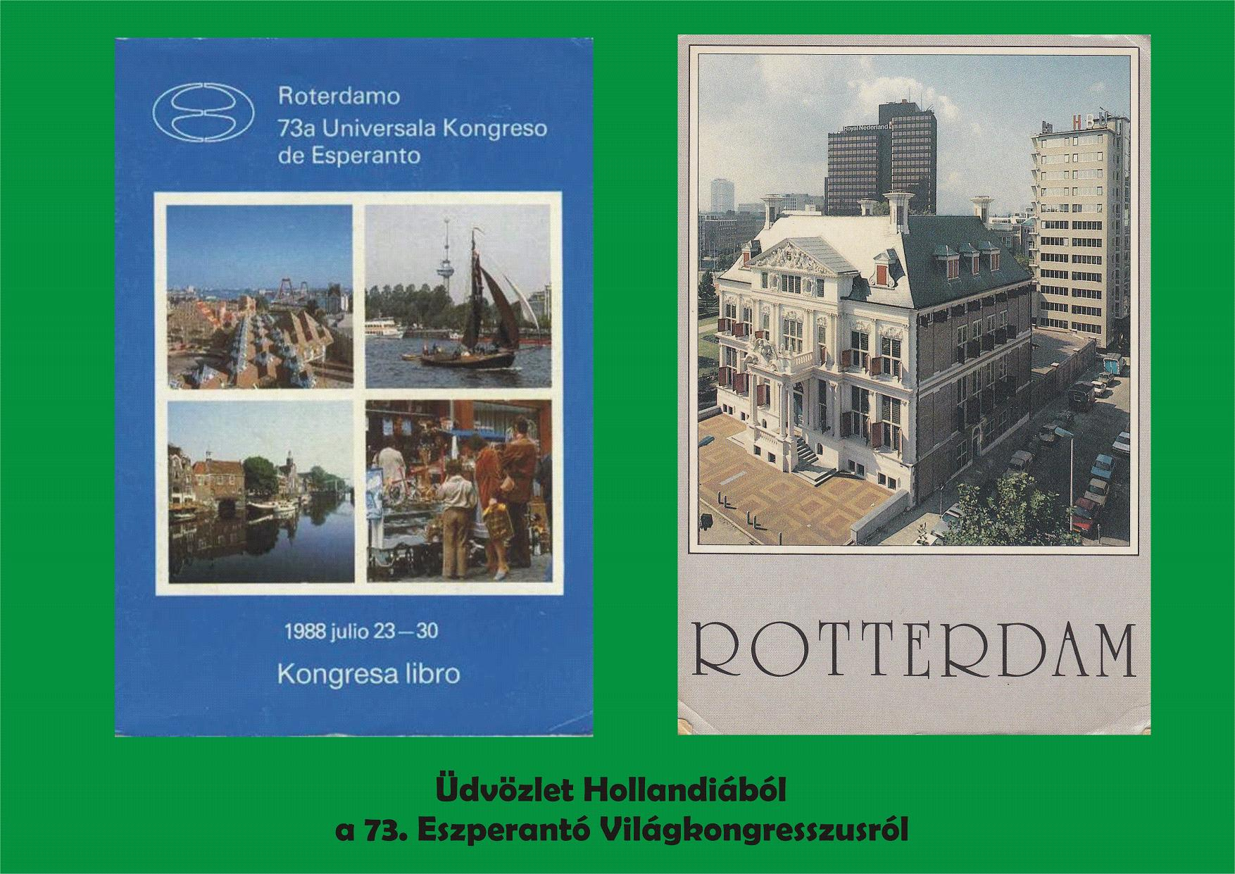 73rd International Esperanto Congress in Rotterdam in 1988